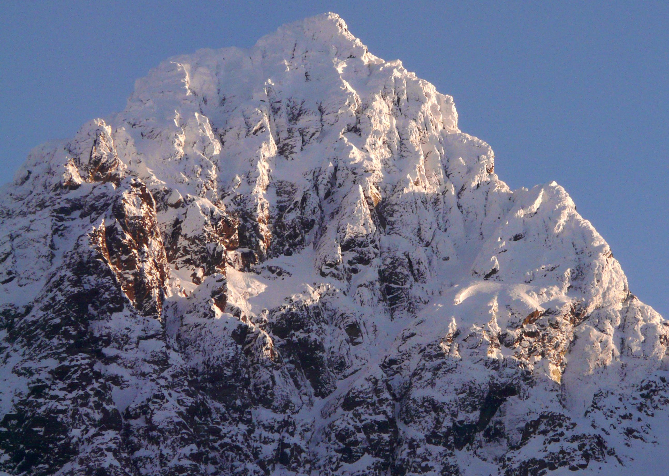 Store Lakselvtinden (1,616 m) seen from the west in Lakselvdalen in 2009 February. The peak belongs to Lakselvtindane mountain group.